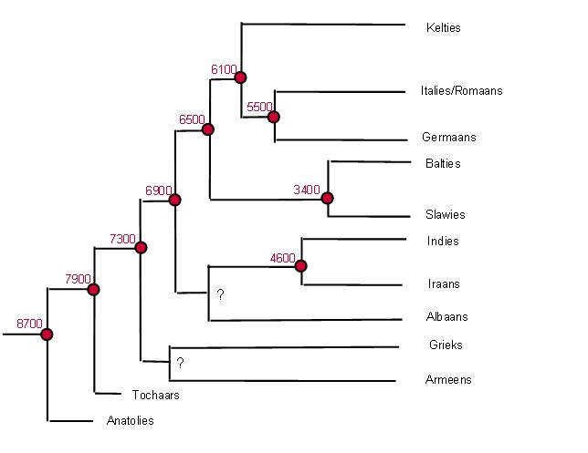 The language tree of the Indo-European languages, in Afrikaans.